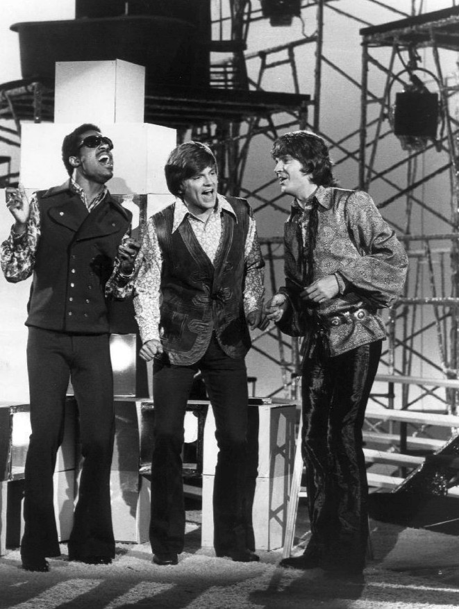 Photo of Stevie Wonder and the Everly Brothers from his guest appearance on their summer replacement television program in 1970.